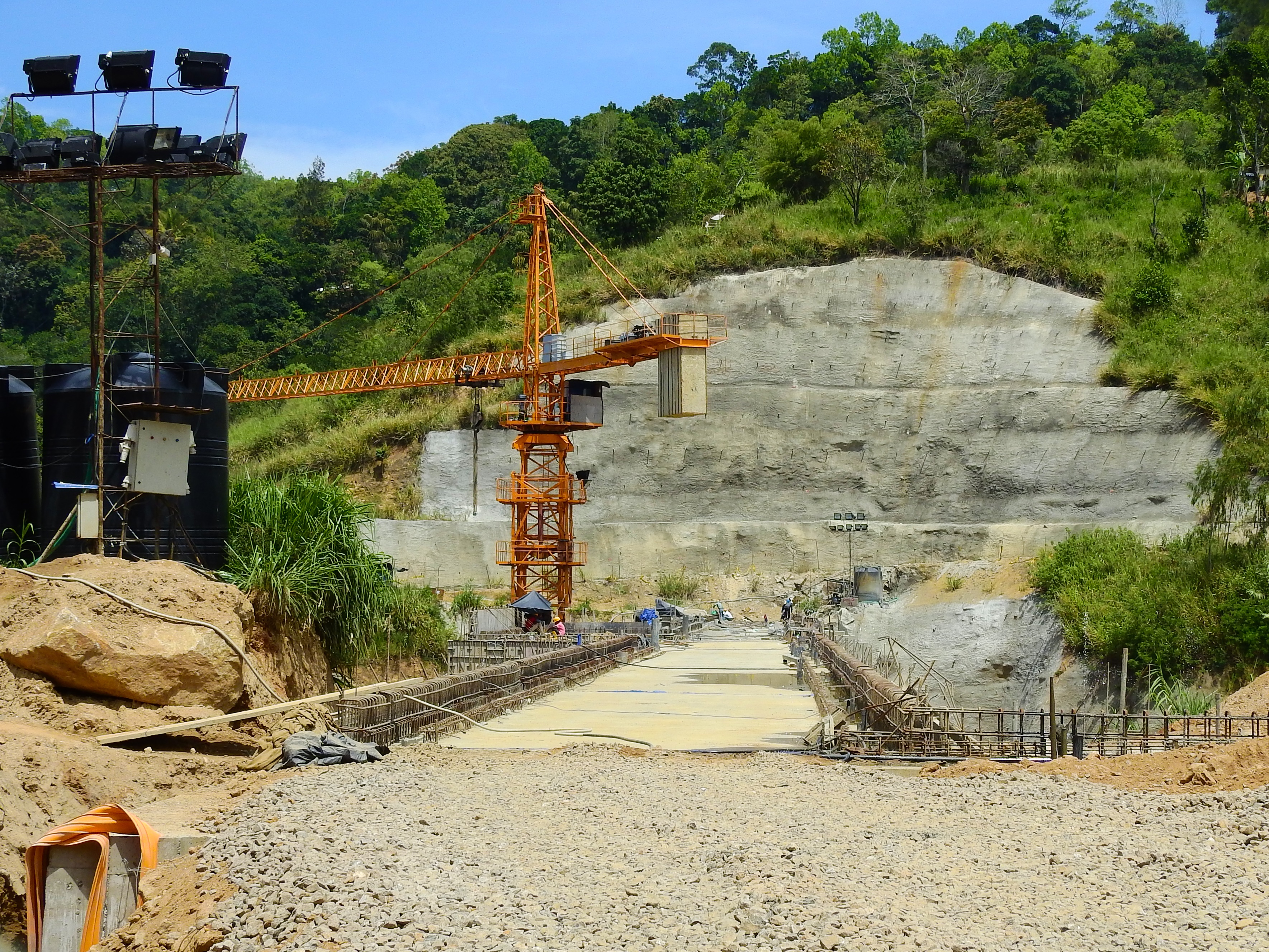 This photo was taken as part of a photo project by Wikimedia Community User Group Sri Lanka, covering current/future hydroelectric dams (and its surroundings) in the Central and Sabaragamuwa provinces of Sri Lanka. User:Rehman handled the photography, while User:Azeez and User:PasinduBR handled the logistics/planning of routes. Description of photo: Puhulpola Dam under construction. Further information on the subject(s) of the photograph may be found in the category/ies of this file.